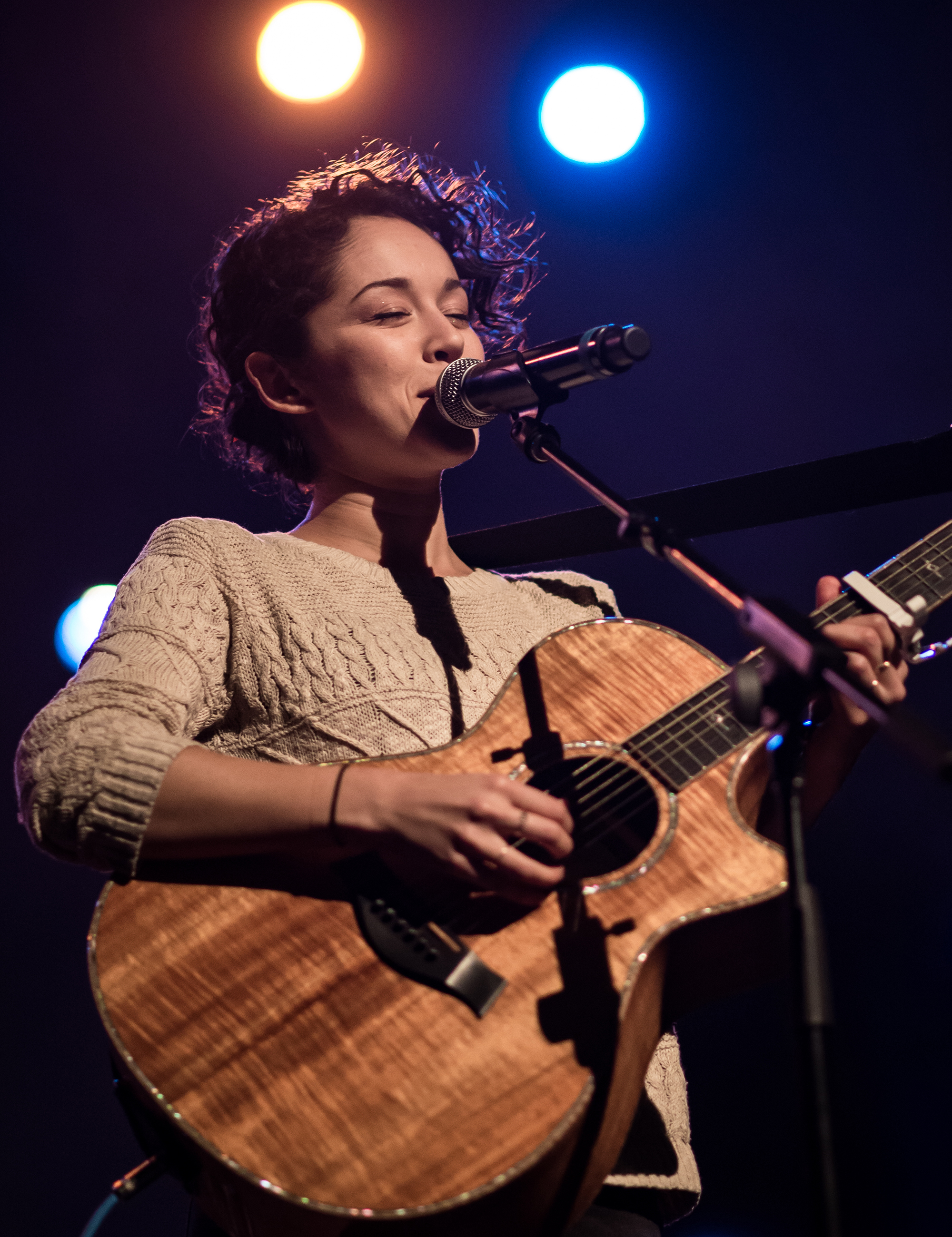 Kina Grannis at the Hapa Japan Festival Concert, in Bovard Auditorium on the campus of the University of Southern California (USC) in downtown Los Angeles, California, on Saturday, February 25, 2017. Taken by Justin Higuchi